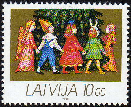 Postage stamp issued by Latvia 1992 depicting Christmas scene.